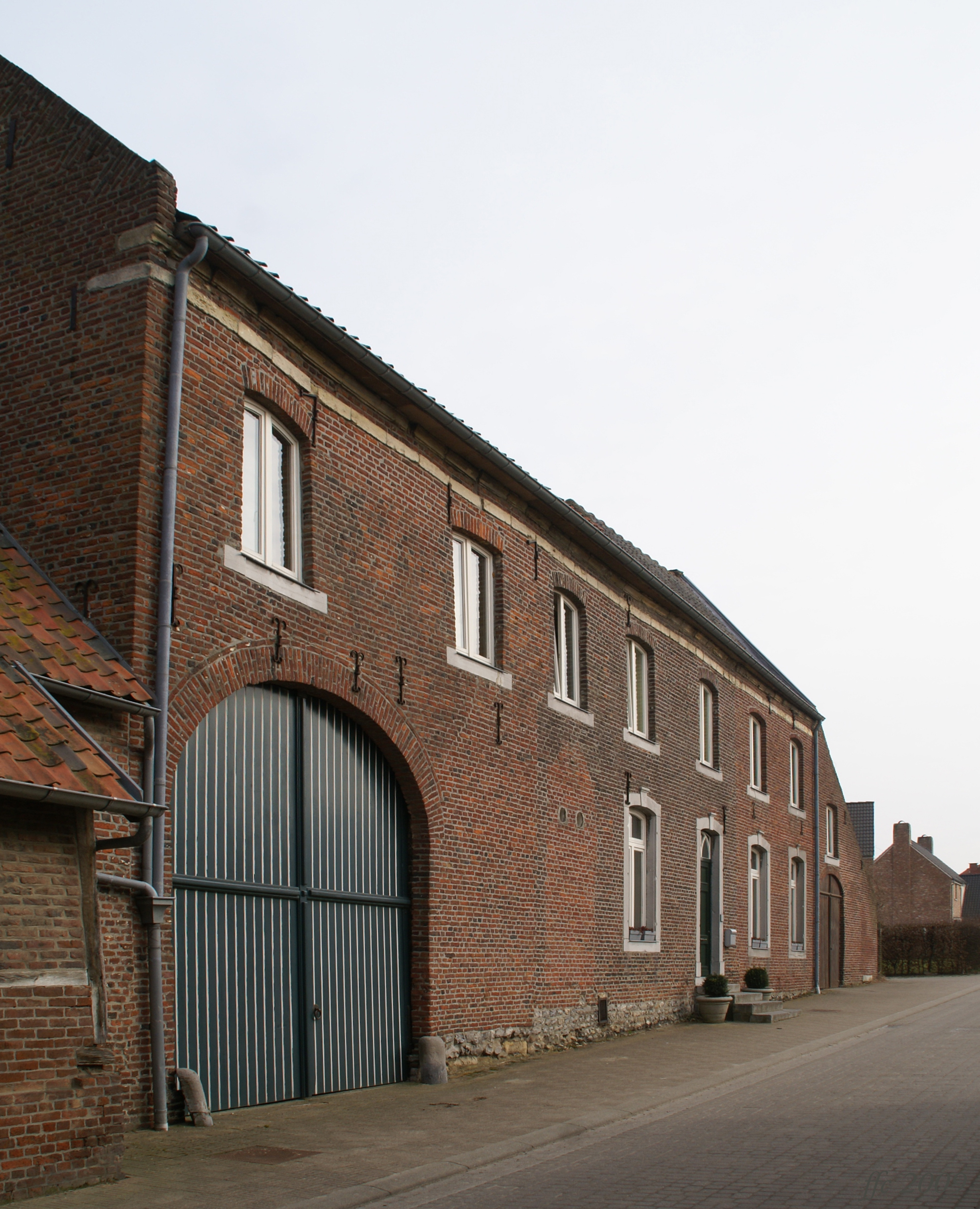 Piringen (Belgium): Farm in the Piringenstraat